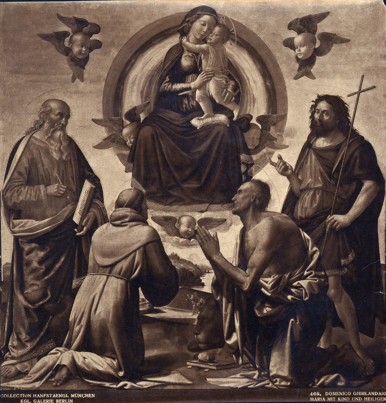 Virgin and Child in Glory with four saints, by Domenico Ghirlandaio, ca. 1496-1497. The painting was destroyed or disappeared in Berlin in May 1945, in the Friedrichshain flak tower fire. The saints represented are: John the Evangelist, Francis, Jerome, and John the Baptist - Dimensions: 181 x 179 cm - Tempera and oil on canvas